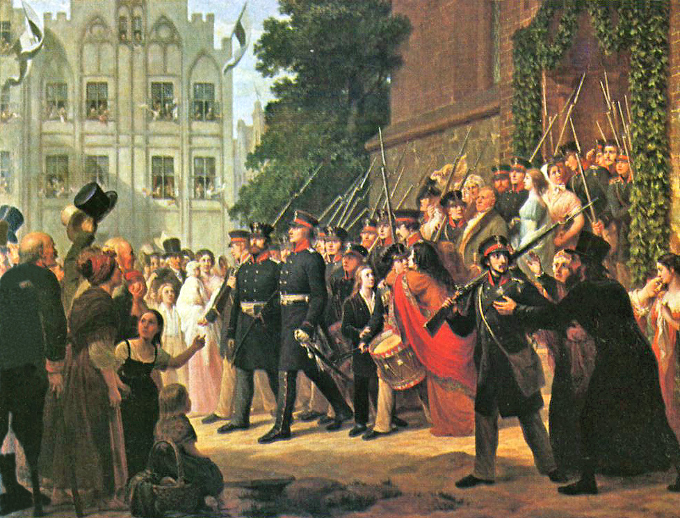 The East Prussian Militia Takes to the Field in 1813 after Receiving a Blessing in the Church (1860-61, Gustav Graef). Kunstforum Ostdeutsche Galerie, Regensburg.